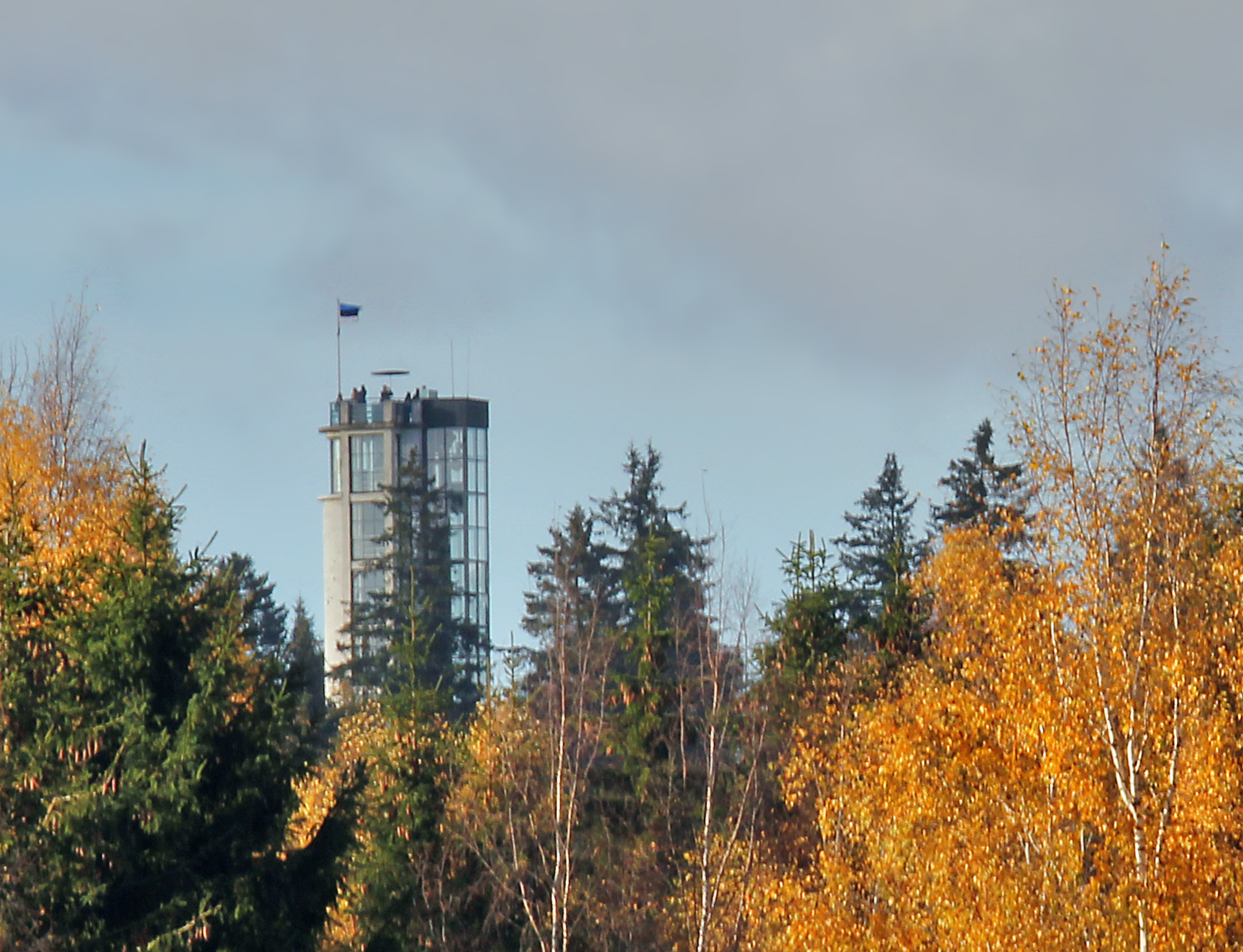 Observation tower on Suur Munamagi